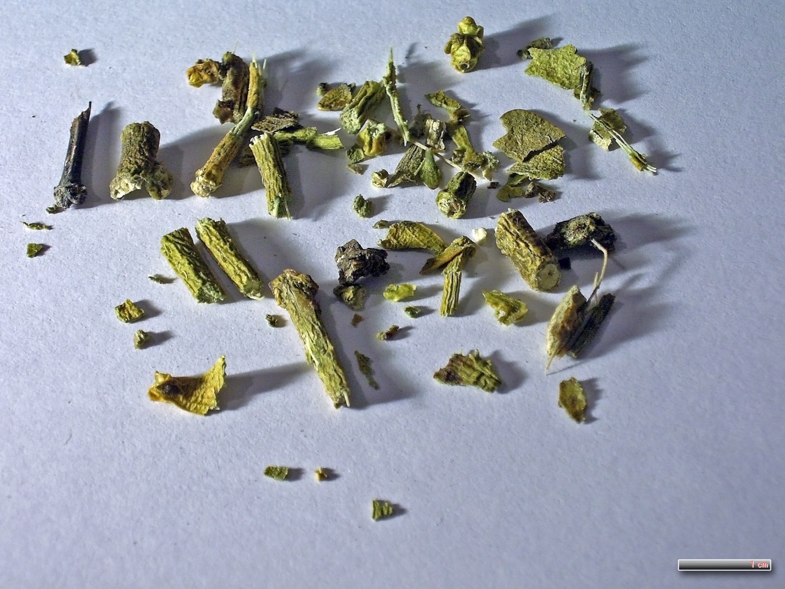 dried Viscum album, European Mistletoe or Common Mistletoe; Herb